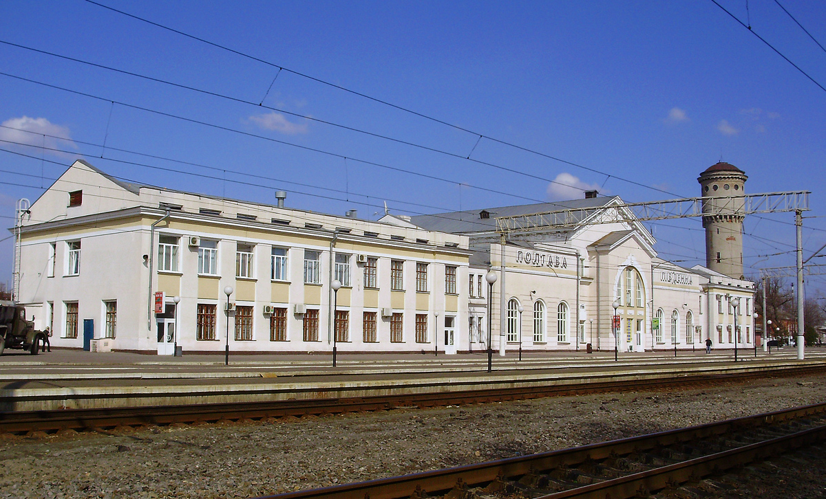 Poltava-Pivdenna railway station